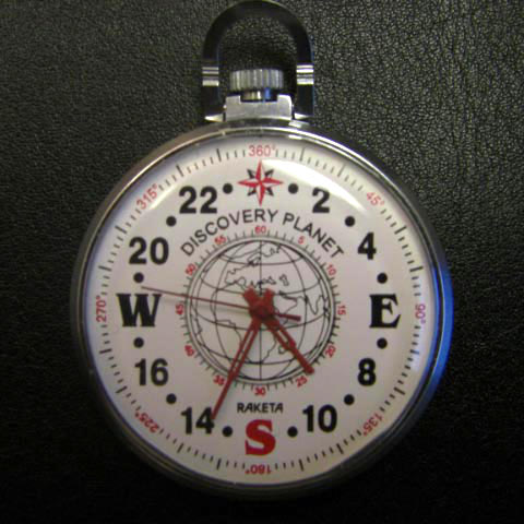 A direction watch is a specialized 24-hour watch, with compass card dial, designed for finding directions using the sun in the northern hemisphere. With the watch set to indicate local time, the hour hand is pointed directly at the sun. North is then indicated by the local midnight position.